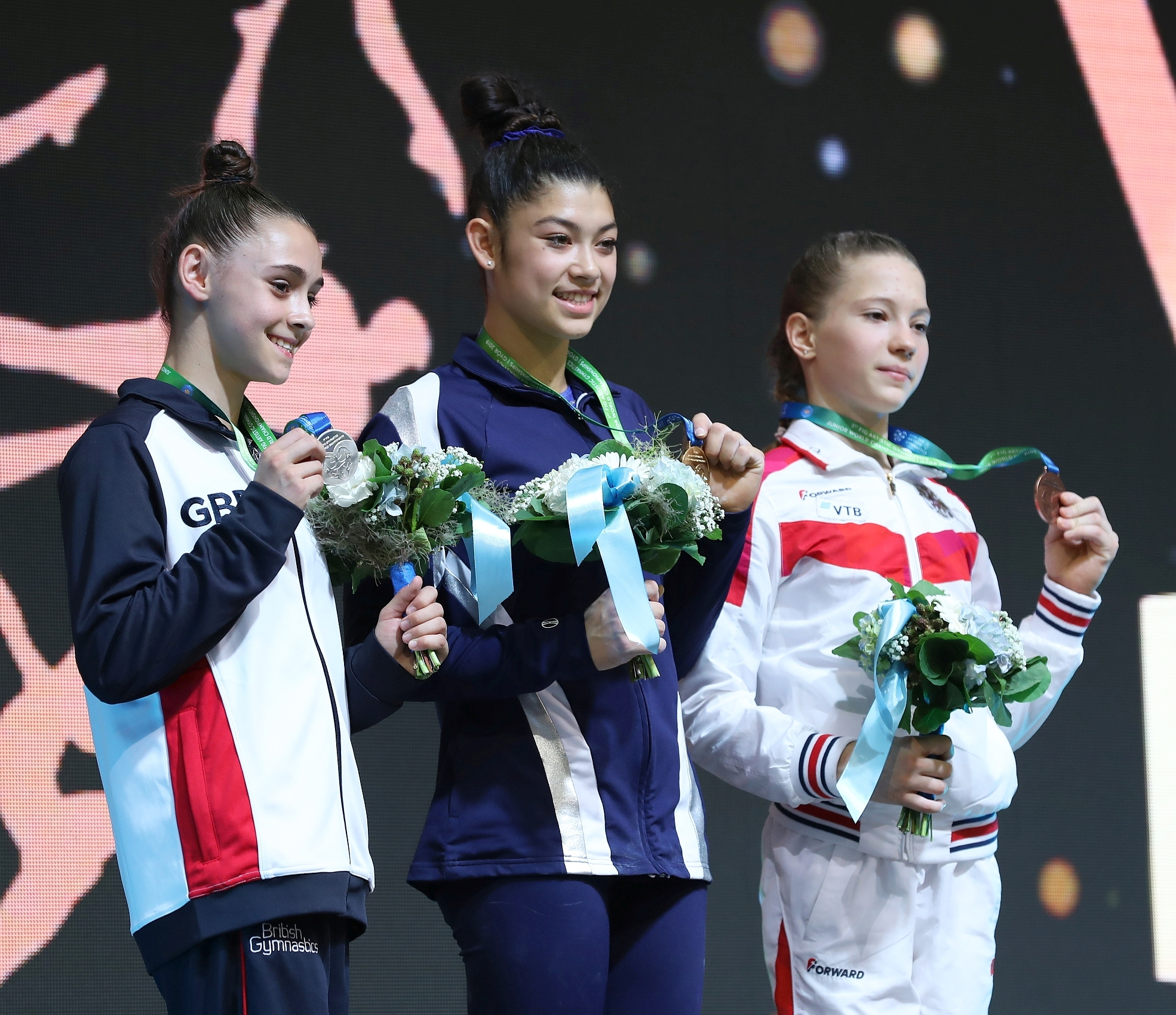 Vault victory ceremony during the girls' apparatus finals at the 1st FIG Artistic Gymnastics Junior World Championships on 29 June 2019 in Győr, Hungary. Depicted: Jennifer Gadirova. Kayla DiCello. Vladislava Urazova.